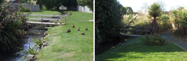 Kaikorai Stream flows through Kaikorai Common, Kaikorai, Dunedin. first photo of unknown date by Kaikorai Valley College compared with second photo of 2013-07-39 by Peter Dowden